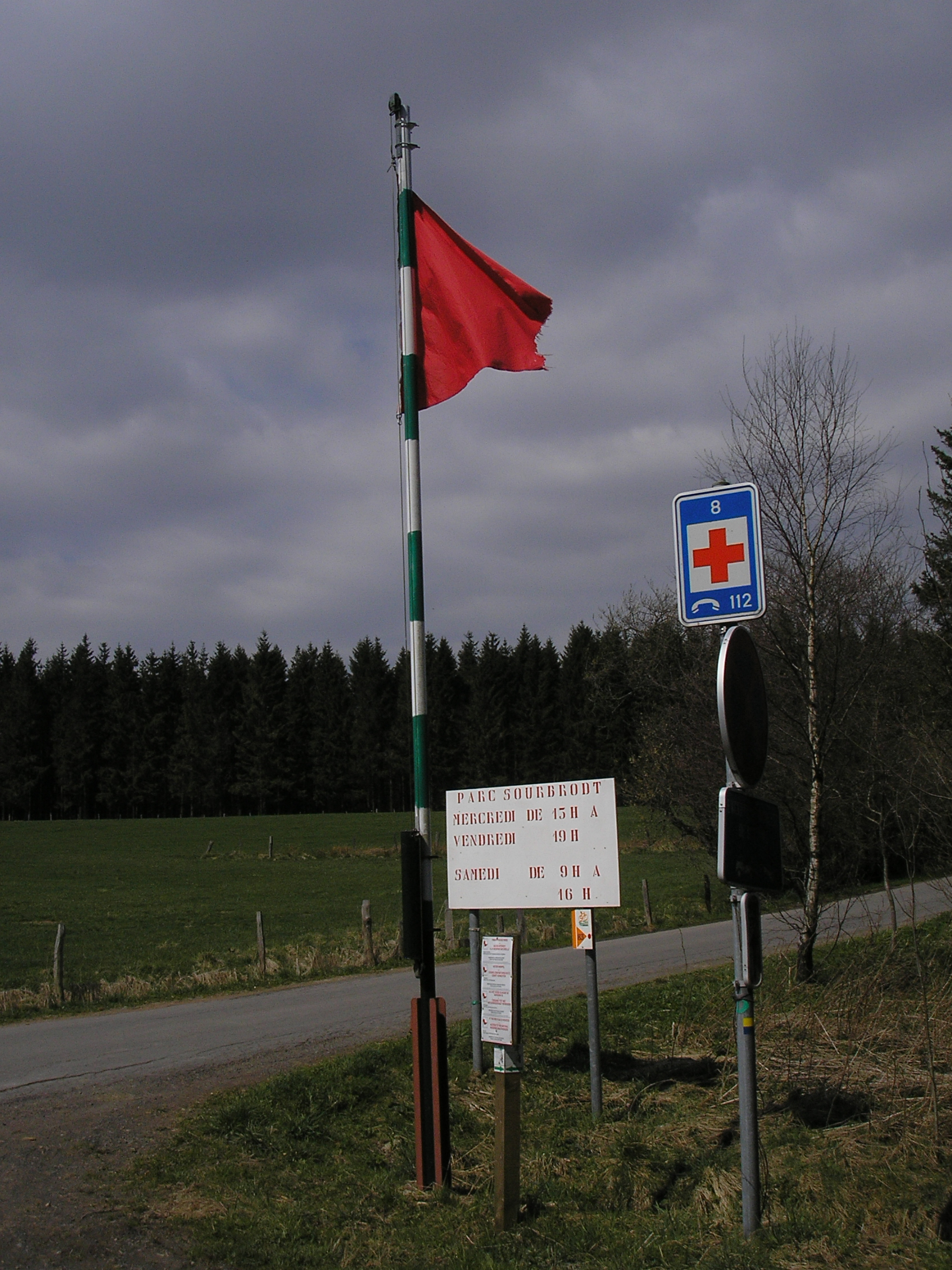 Red flag - stop to go, Weismes, East Belgium